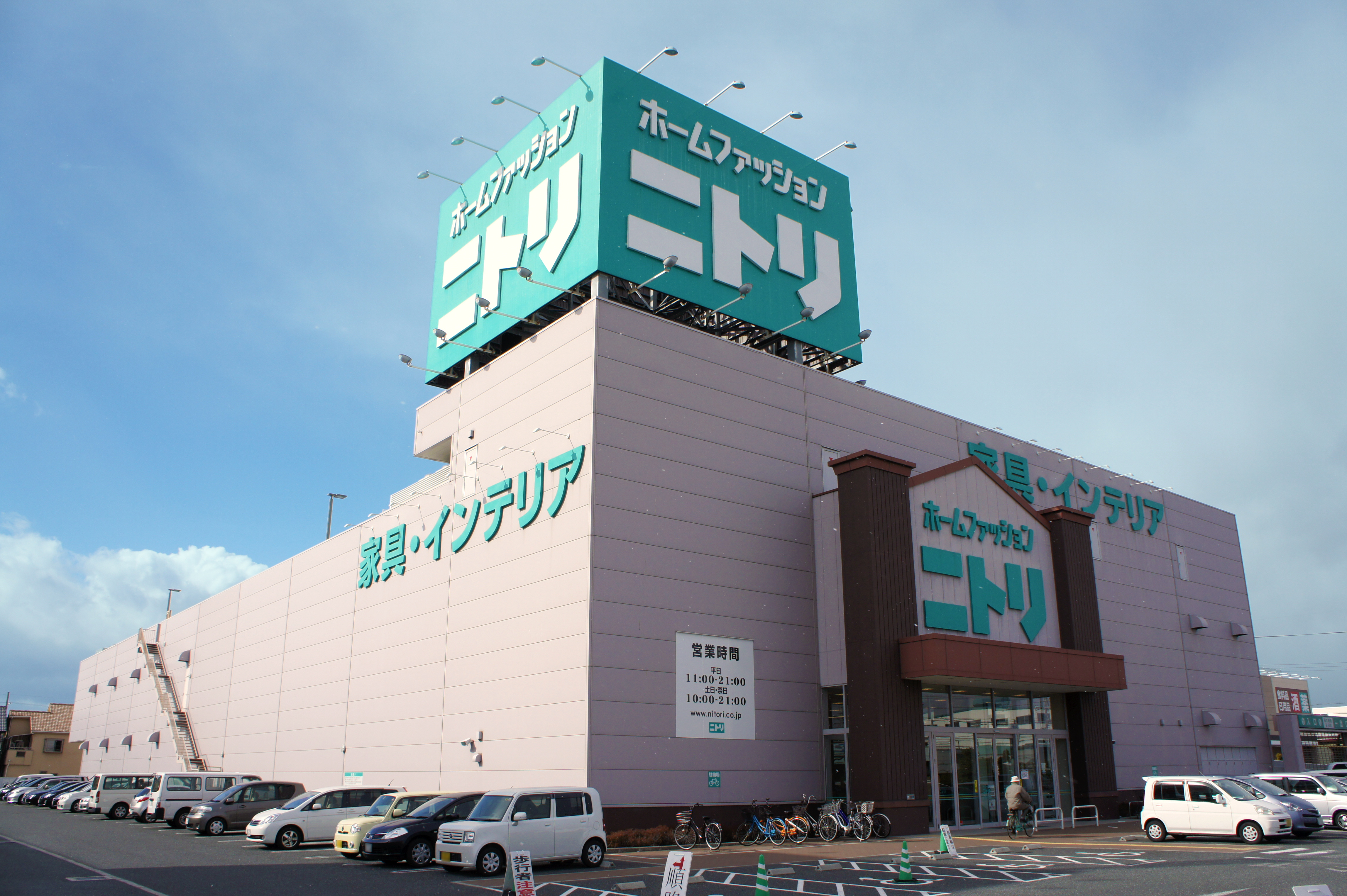 NITORI Takatsuki, 5-2-2 Otsukacho Takatsuki-City Osaka Japan.